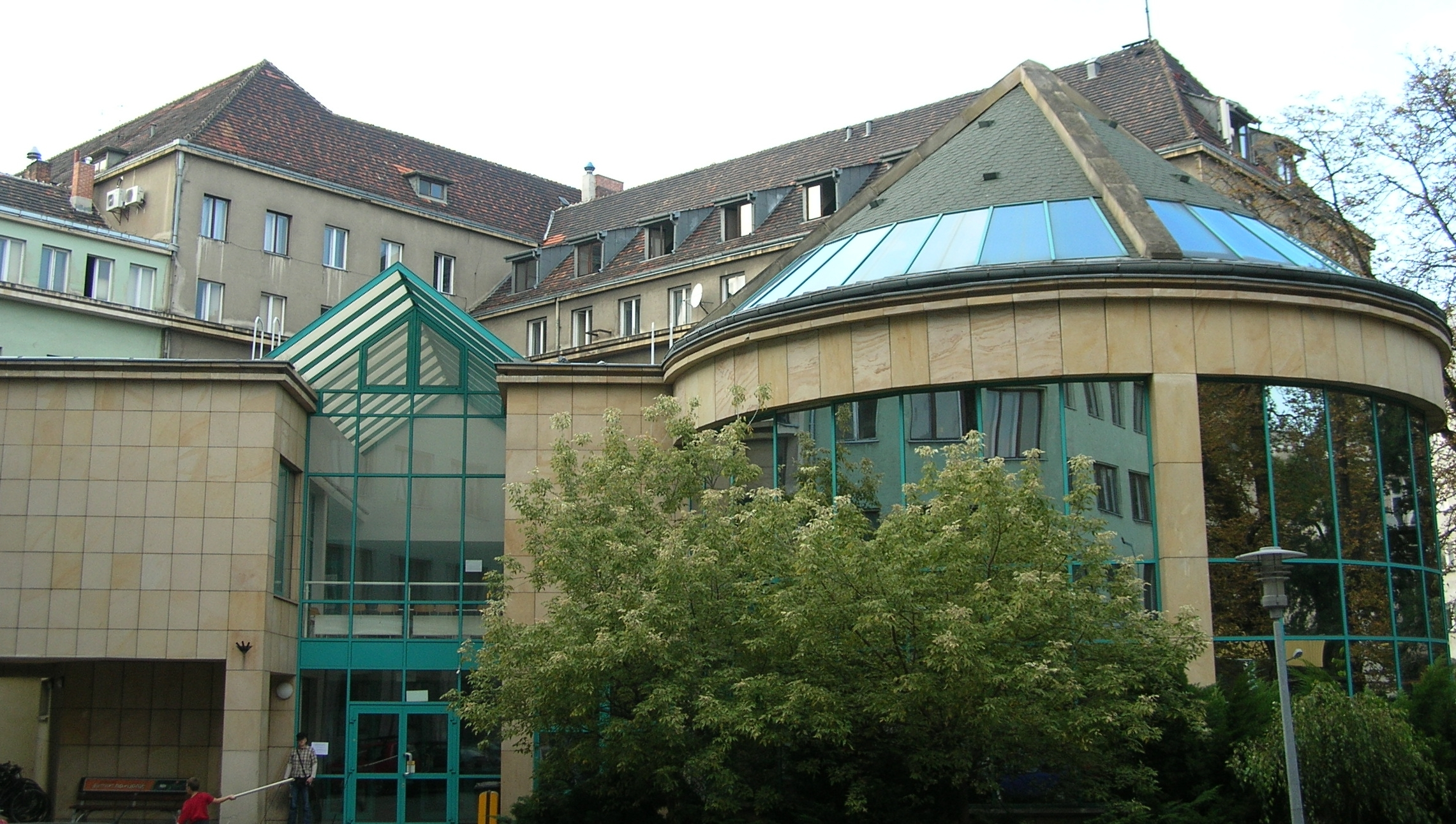 Institute of Geological Sciences, Wrocław University